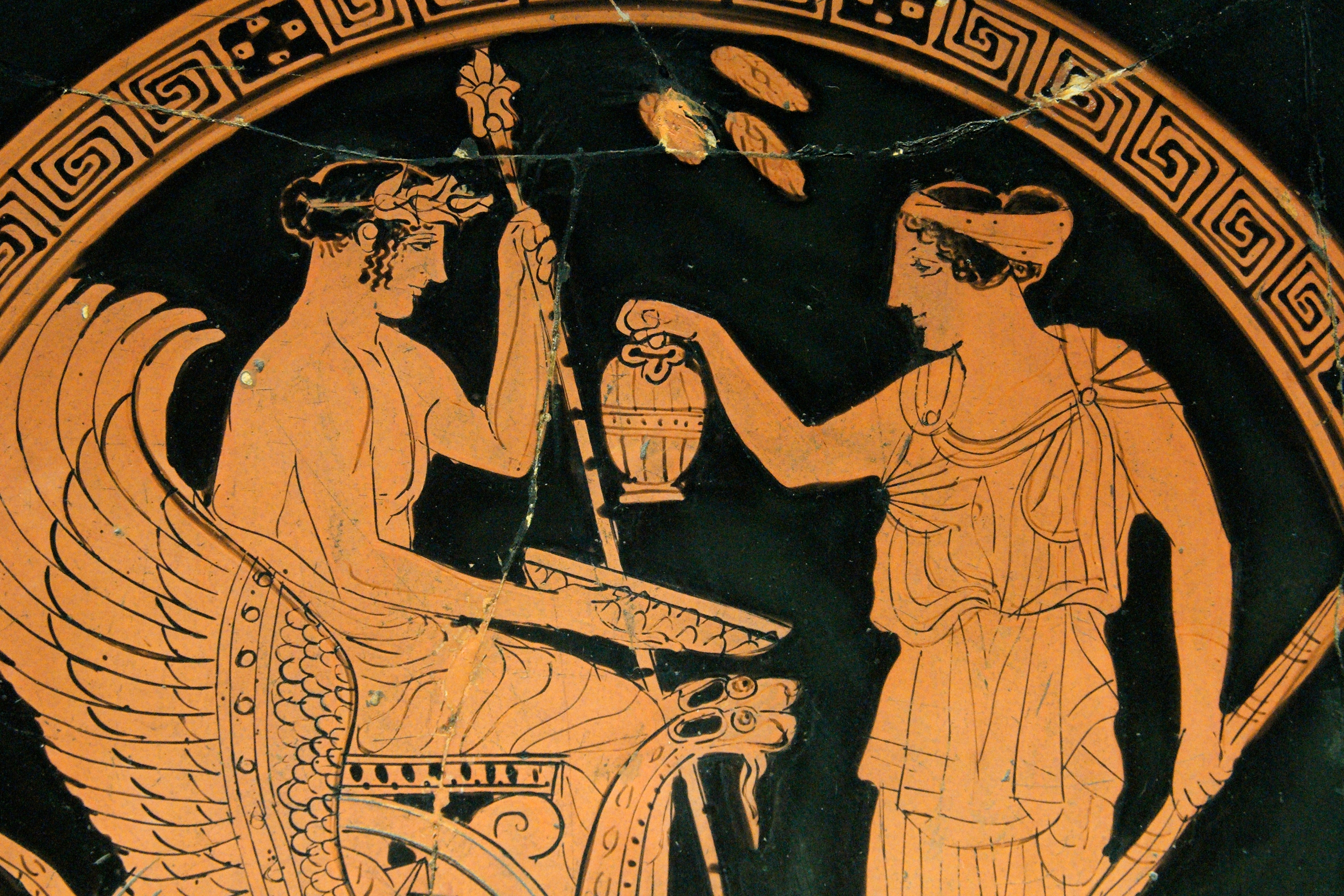 Triptolemus and Korē, tondo of a red-figure Attic cup.